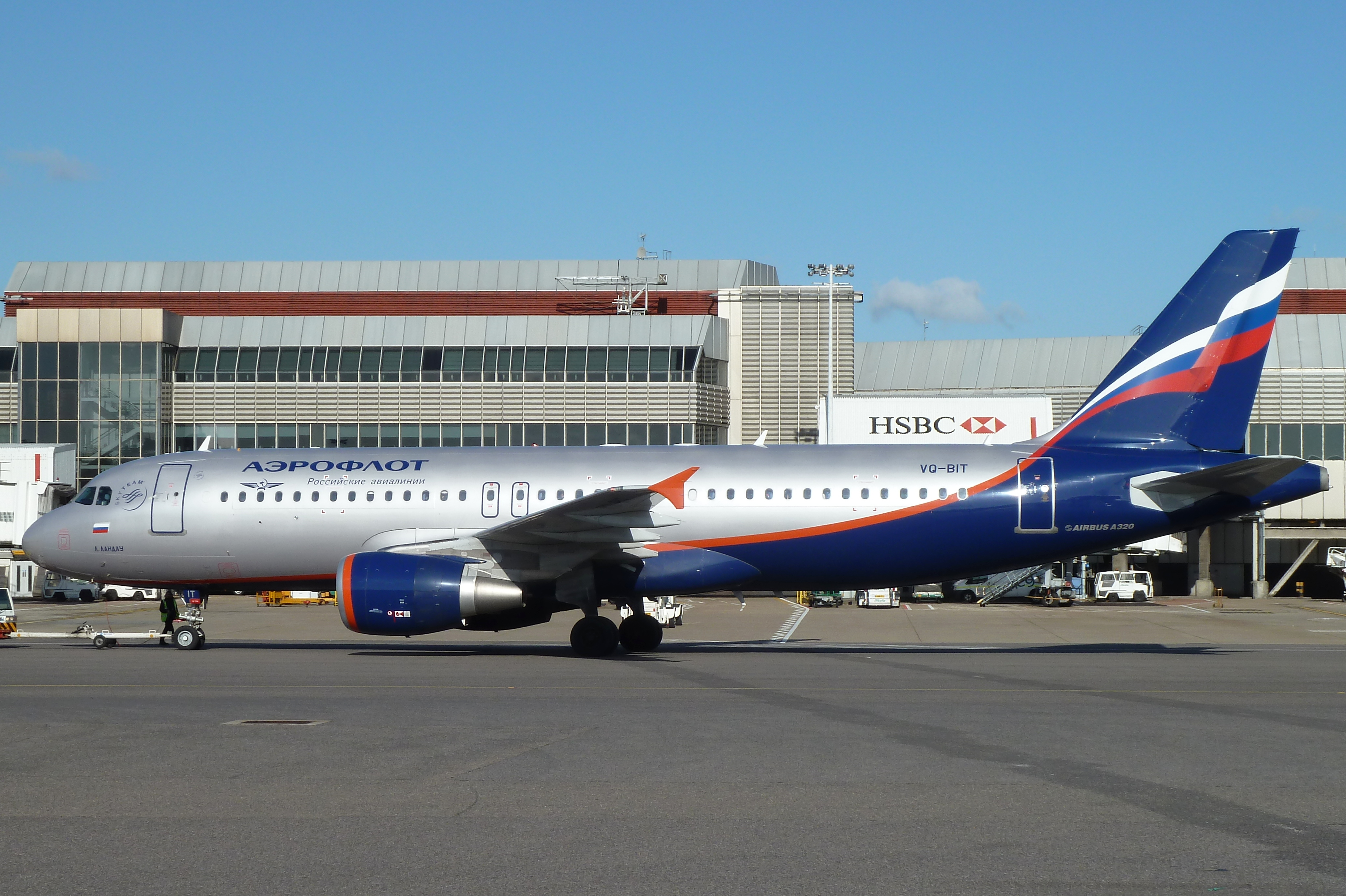 VQ-BIT A320 Aeroflot pushing back off std 421.